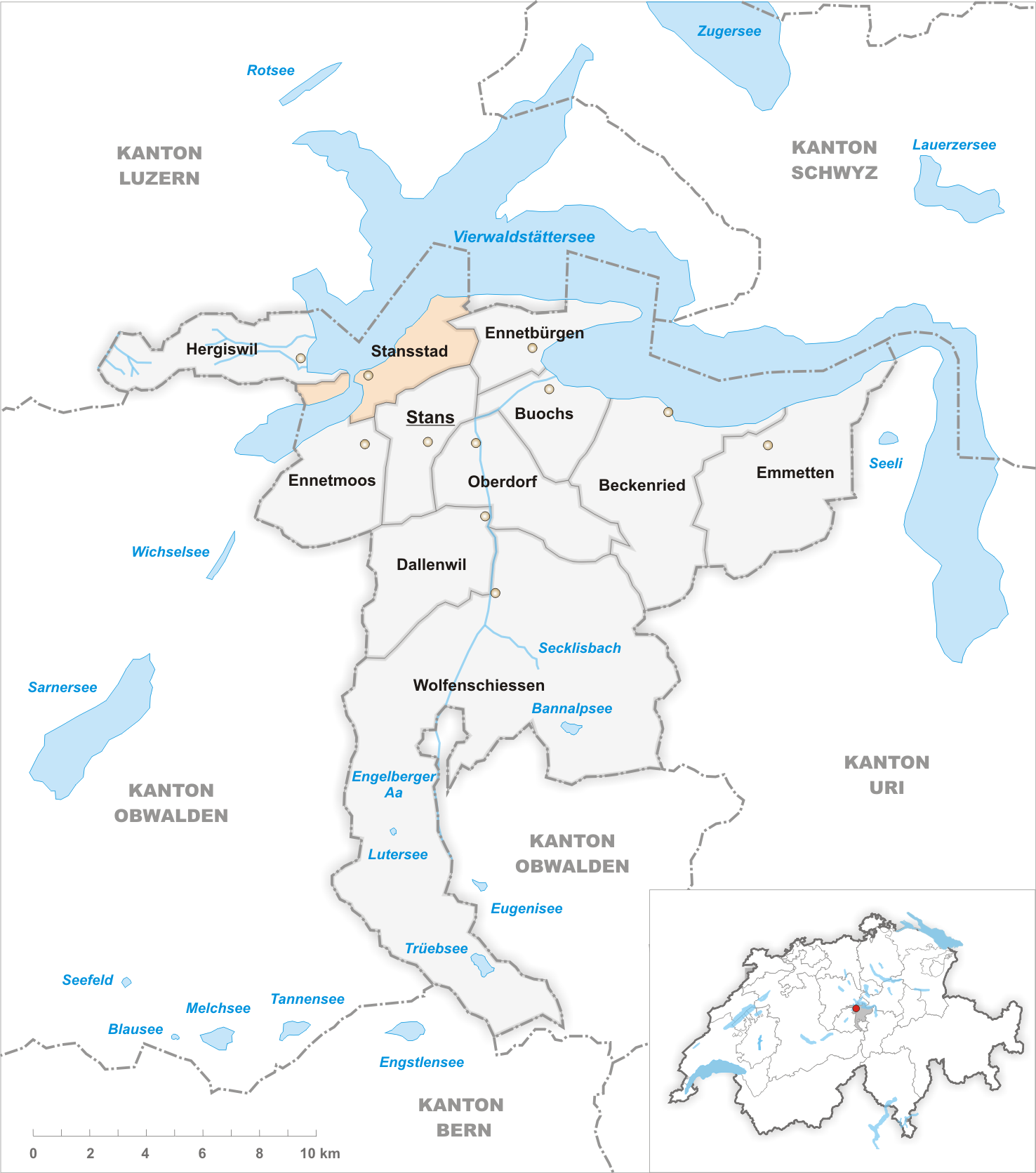 Municipality Stansstad